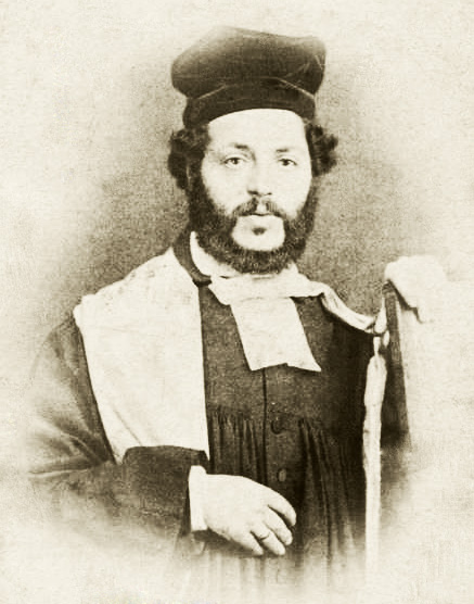 Picture of Marcus Jastrow, as Rabbi of Worms